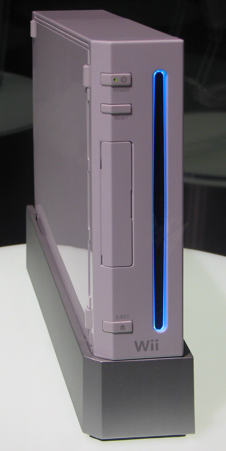 Wii at E3 2006